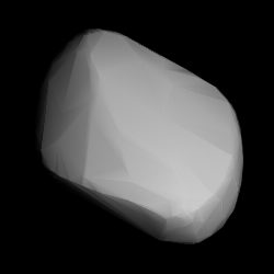 3D convex shape model of 6257 Thorvaldsen, computed using light curve inversion techniques. J. Hanuš, J. Ďurech, M. Brož, B. D. Warner (June 2011). "A study of asteroid pole-latitude distribution based on an extended set of shape models derived by the lightcurve inversion method". Astronomy and Astrophysics 530: A134. ISSN 0004-6361. arXiv